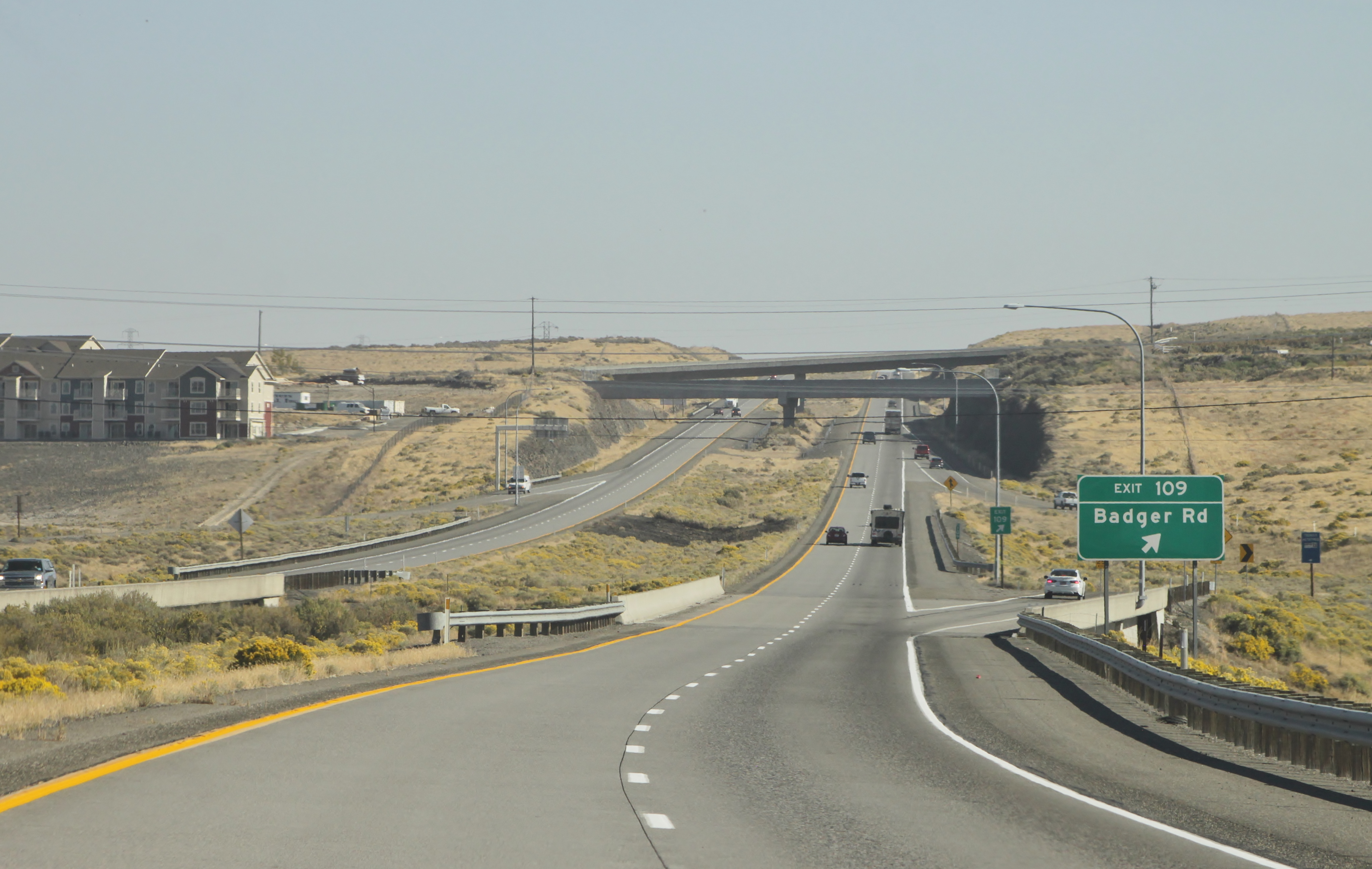 Looking eastbound on Interstate 82 at the Badger Road interchange in southern Kennewick.